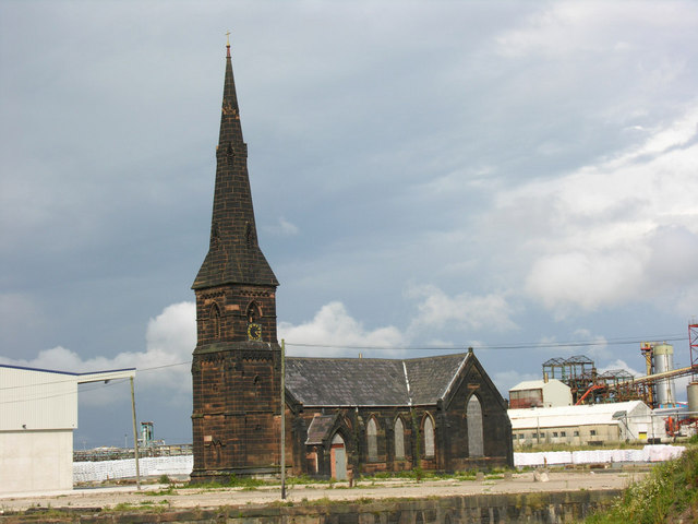 Christ Church parish church, Post Office Lane, Weston Point, Cheshire, seen from the southwest. Disused church isolated in port redevelopment.